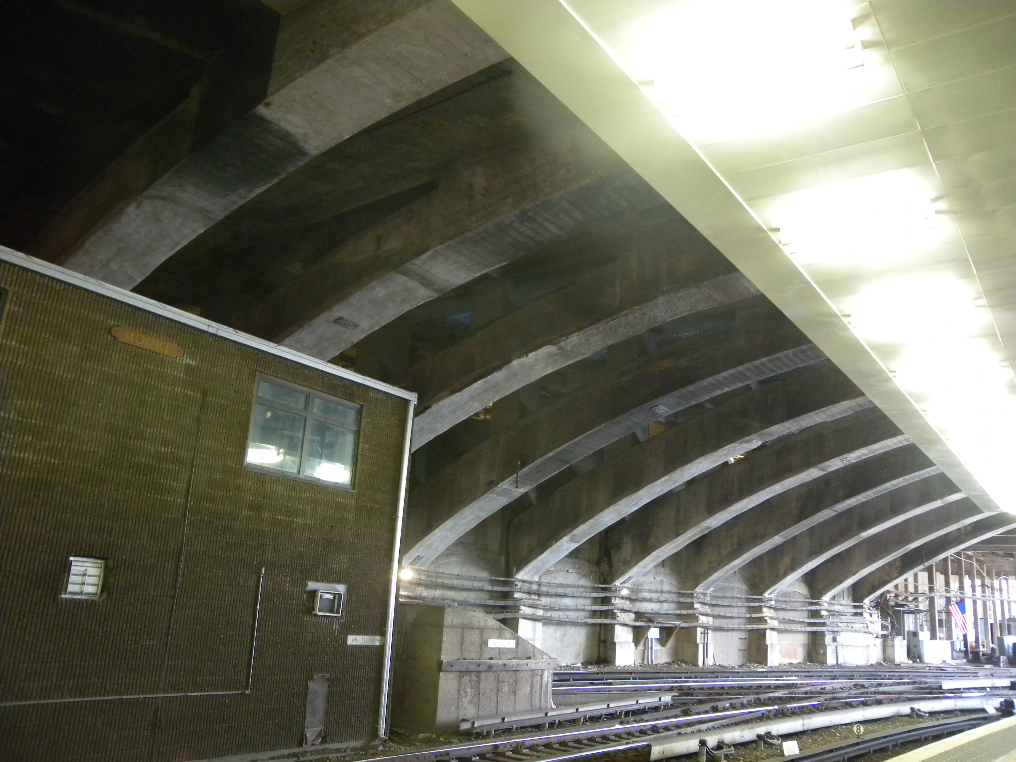 Looking northwest and up from westbound platform at ribs holding Journal Square above the PATH station.